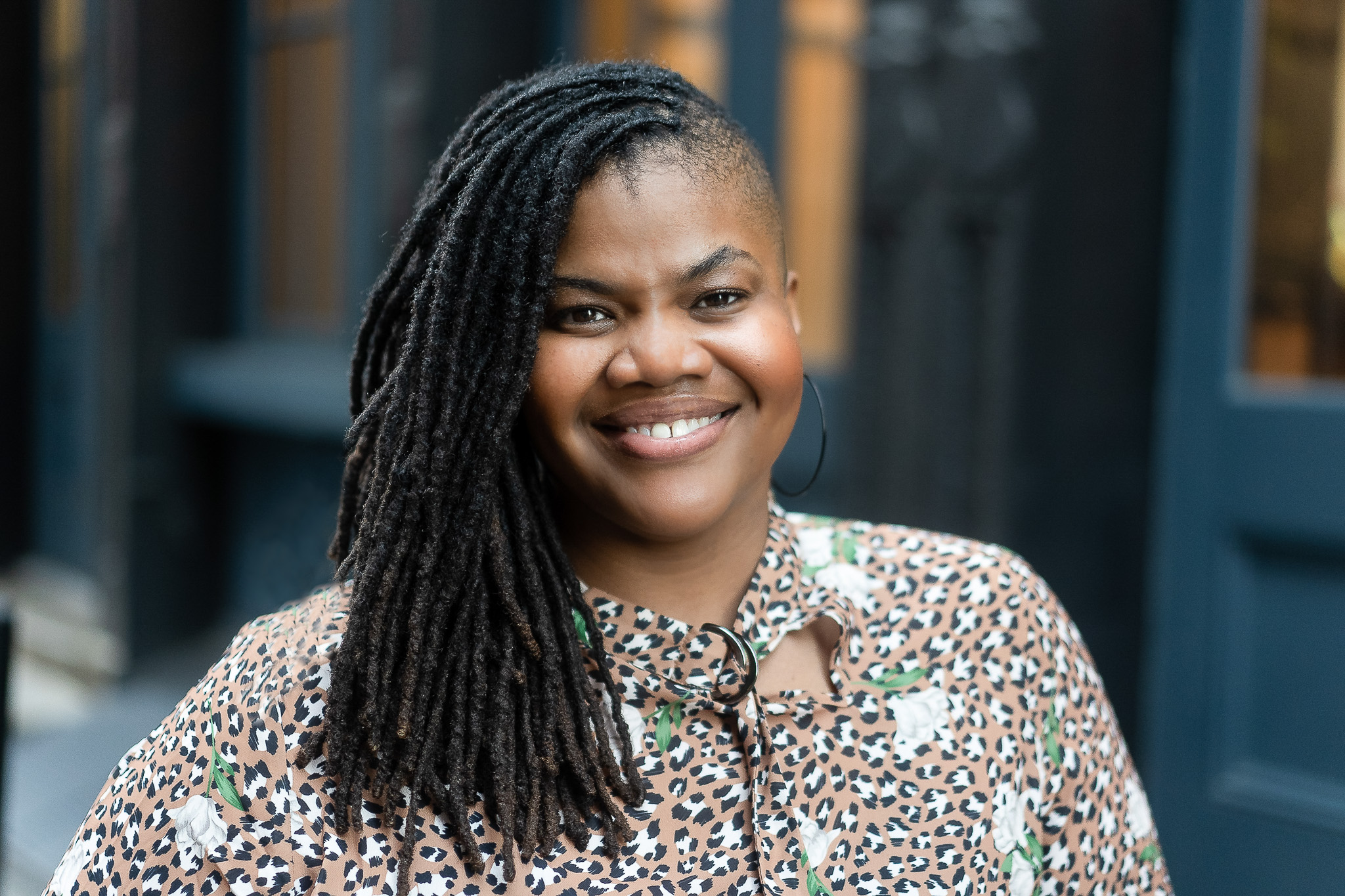 Headshot photo of Lydia Hamilton